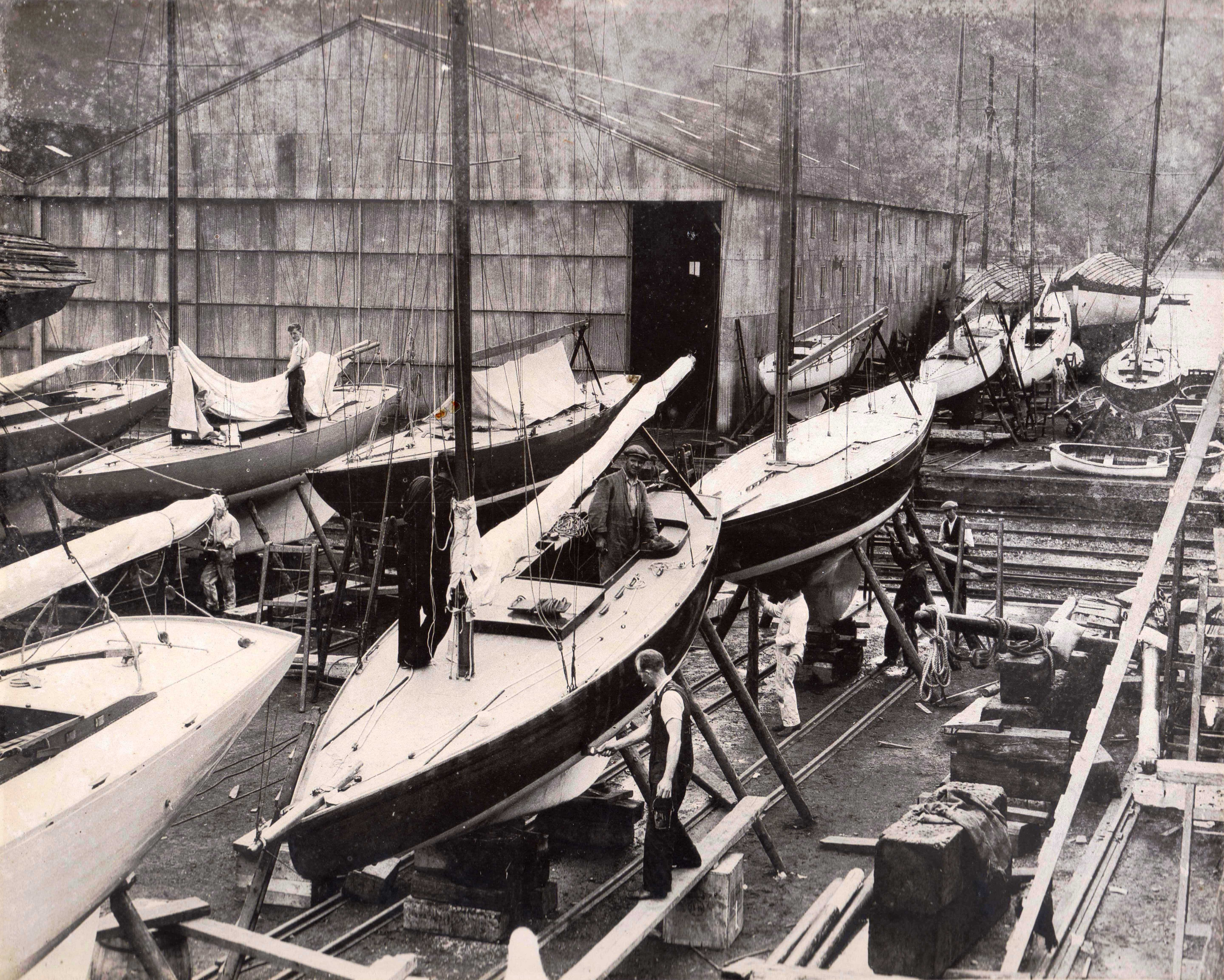 Boats being prepared for the 1936 Clyde Fortnight Regatta. 'Sunbeam', a 19/24 class Mylne yacht in the centre. 'Volga' a 6-metre Mylne to the rear. 'Senoia' a 6-metre Nicholson to the rear-left. Three Scottish Island Class yachts to the left.